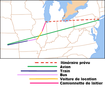 Route taken by Del Griffin and Neal Page in the movie Planes, Trains and Automobiles Summary Red dotted line - Intended route New York to Chicago via plane Green line - Actual flight - A snowstorm in Chicago closes the airport forcing the plane to be rerouted to Wichita, Kansas. Dark blue line - "People Train" from the fictional Stubbville, Kansas, (a little further from Wichita). Train breaks down somewhere in Missouri. Passengers have to walk a mile to the highway where trucks will take them to Jefferson City, Missouri. Light purple line - Bus from Jefferson City to St. Louis Yellow line - Rental car from St. Louis airport to somewhere in Illinois. Pink line - Del and Neal catch a milk truck approximately 3 hours outside of Chicago.